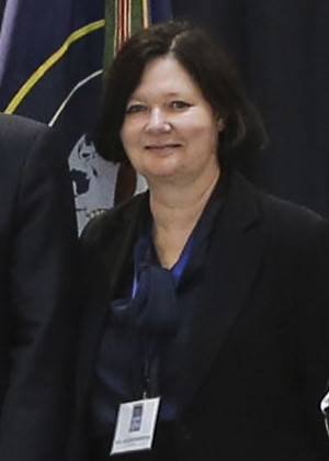 190910-N-IK388-006 NORFOLK (Sept. 10, 2019) Adm. Christopher W. Grady, commander, U.S. Fleet Forces (USFF) Command, left, and Vice Adm. Andrew Lewis, commander, U.S. 2nd Fleet, far right, pose with participants of the Nordic-Baltic-U.S. Forum Deputy Minister of Defense Conference at the USFF headquarters building on Naval Support Activity Hampton Roads. (U.S. Navy photo by Mass Communication Specialist 2nd Class Stacy M. Atkins Ricks/Released)